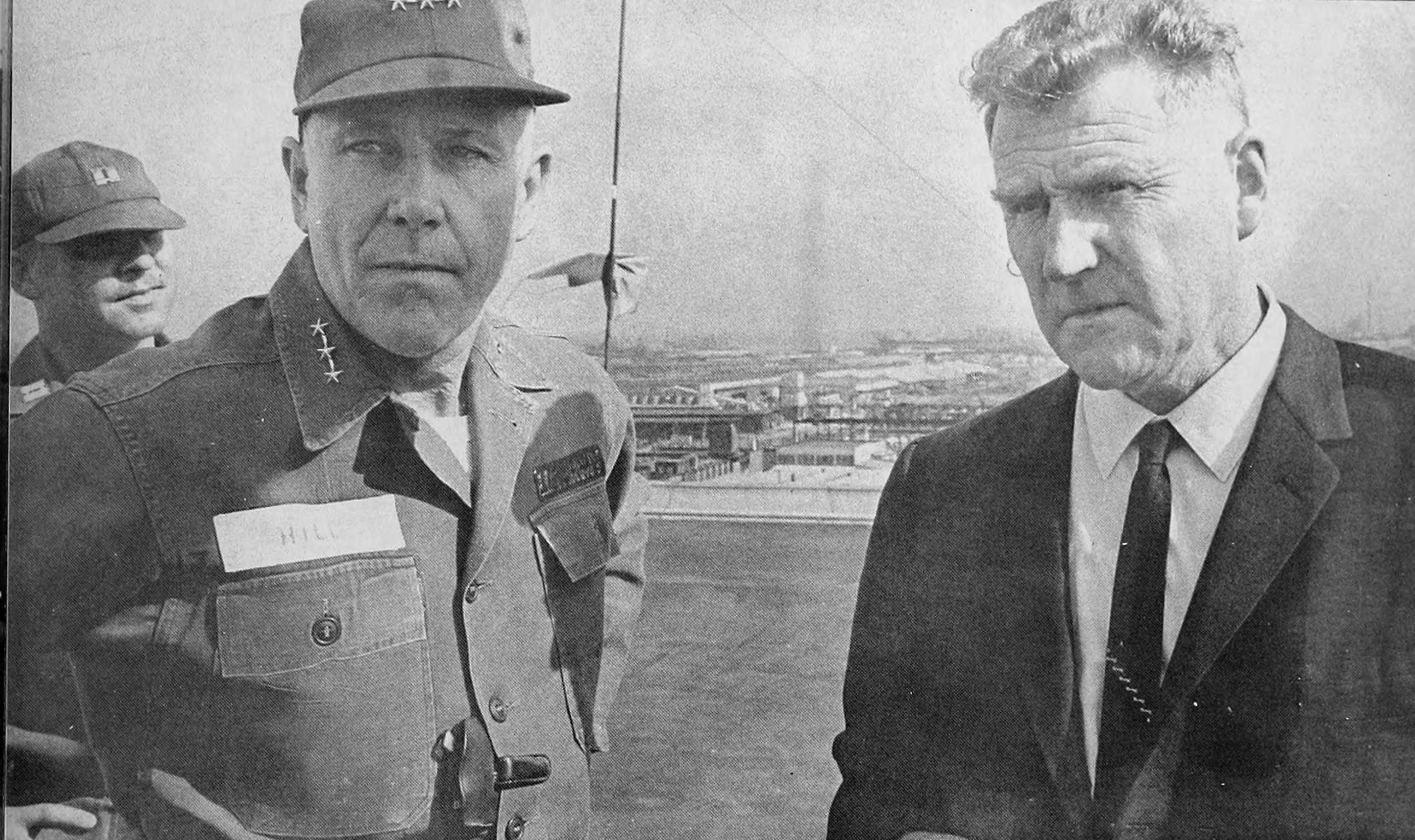 Page 145 from the "128 Hours" report.